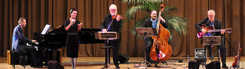 Romanesca Orchestra Holland. Eric Bergsma, Femke Wolthuis, Willem Wolthuis, Tim Nobel, Don Hofstee.